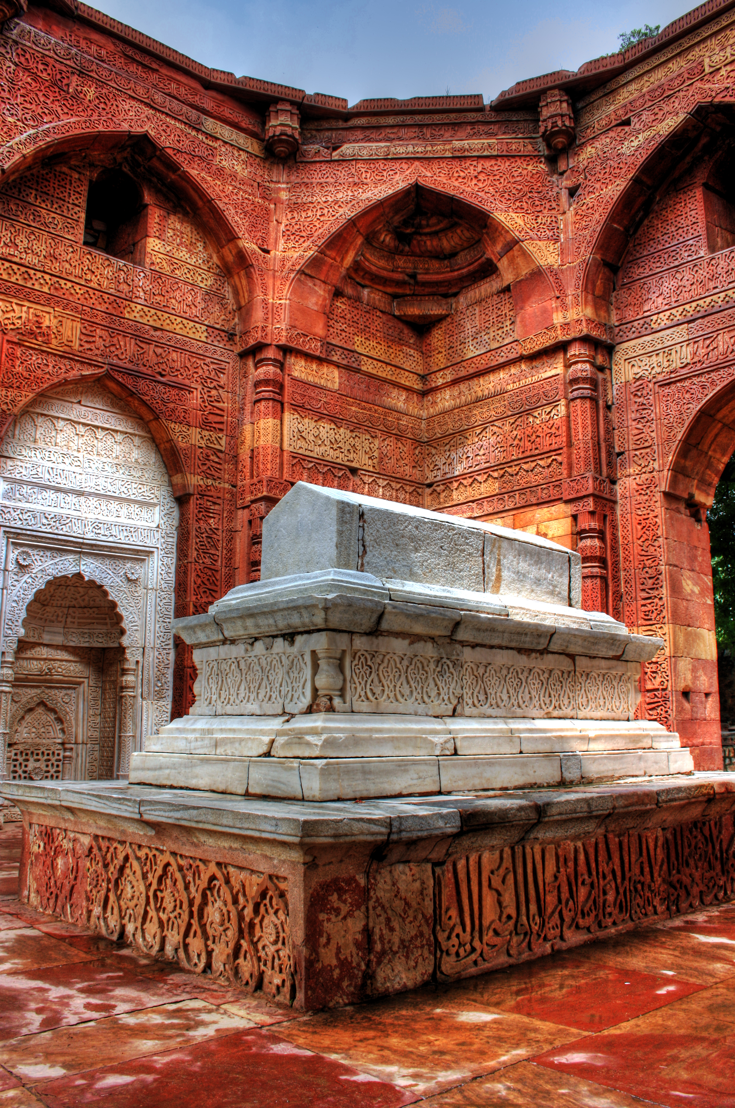 Shams-ud-din Iltutmish was the Third Emperor of Mamluk(Slave) Dynasty that ruled delhi during 13th Century AD. He was the Son-in-Law of Qutub ud Din Aibak, the first Mamluk Emperor. He ordered the construction of Qutub Minar, but died before its completion, His tomb is situated in the "Qutub Complex" of Mehrauli. My personal observations suggests that his tomb must have had a "dome" when it was constructed but could not stand the waves of time and presently the tomb rests beneath the open sky. Image is clicked by using "High Dynamic Range" technique to obtain the perfect exposure.